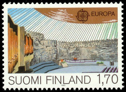 Postage stamp depicting the famous Temppeliaukio Church in Helsinki